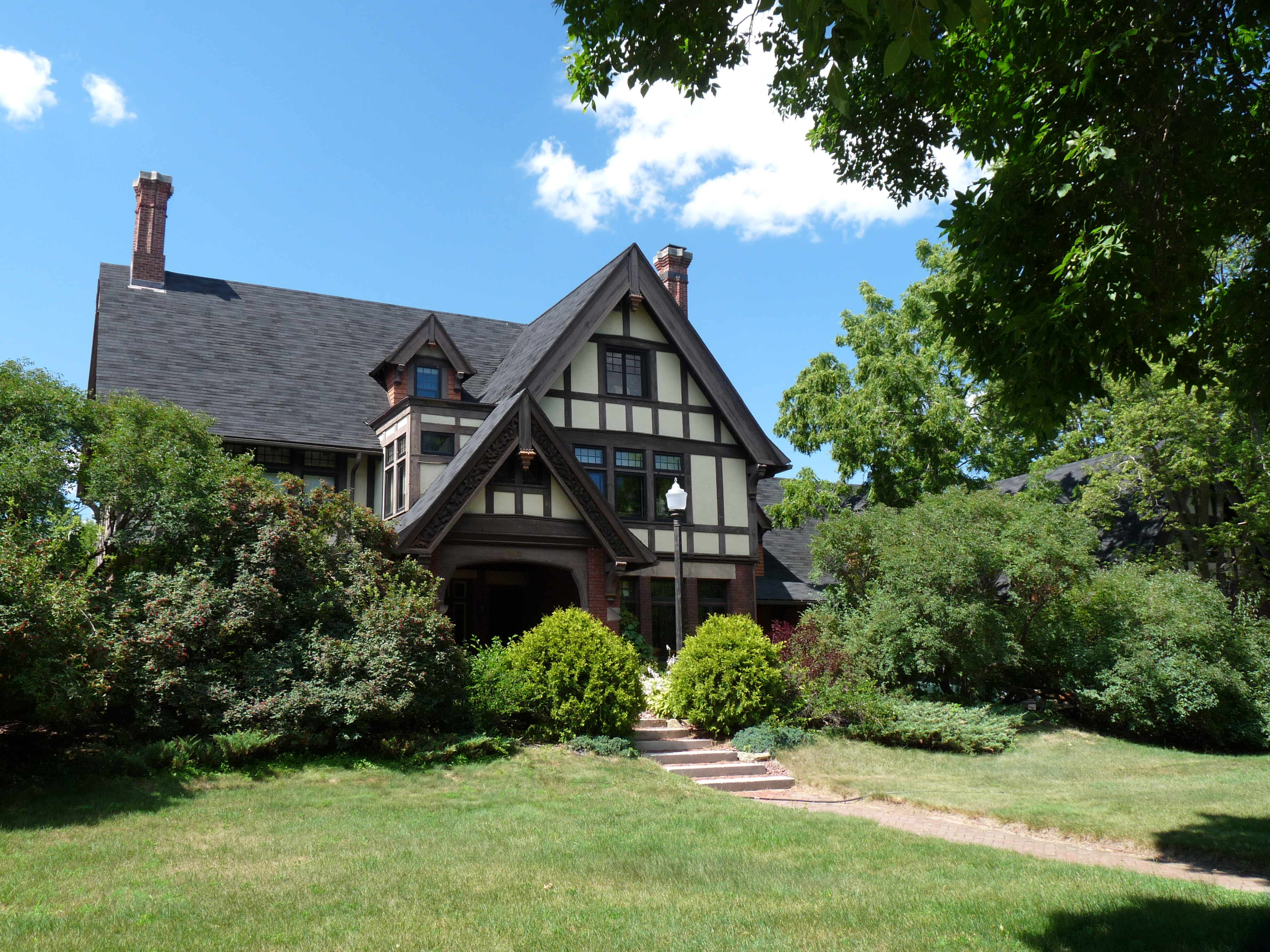 The James Barber house in Eau Claire, Wisconsin was designed by Harry Wild Jones in the Tudor Revival style and built around 1904. Barber was president of the Northwestern Lumber Company and involved in other Eau Claire businesses.